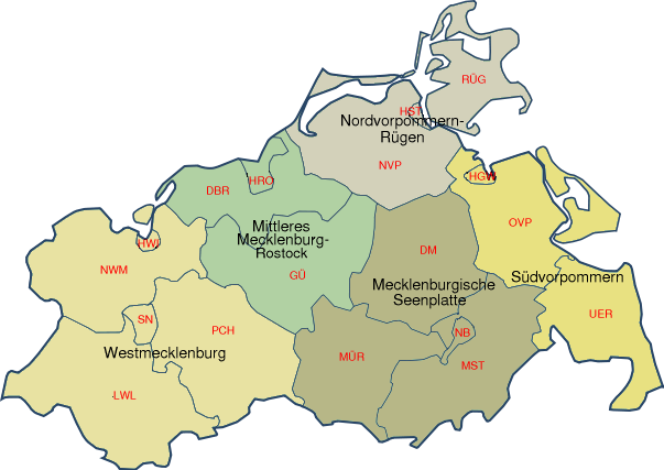 Changes in the counties of Mecklenburg-Western Pomerania in October 2009